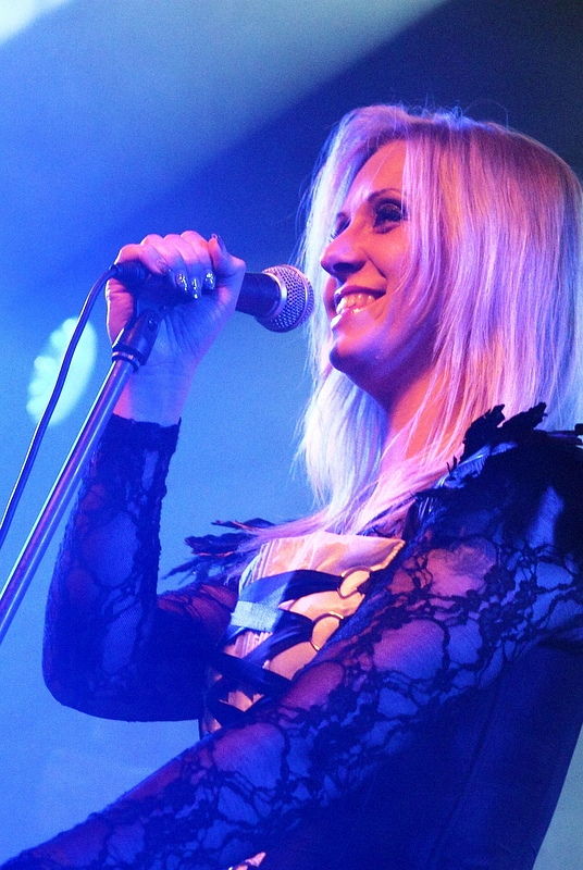 Magdalena "Medeah" Stupkiewicz of Artrosis, Katowice, Mega Club, 6.05.2011